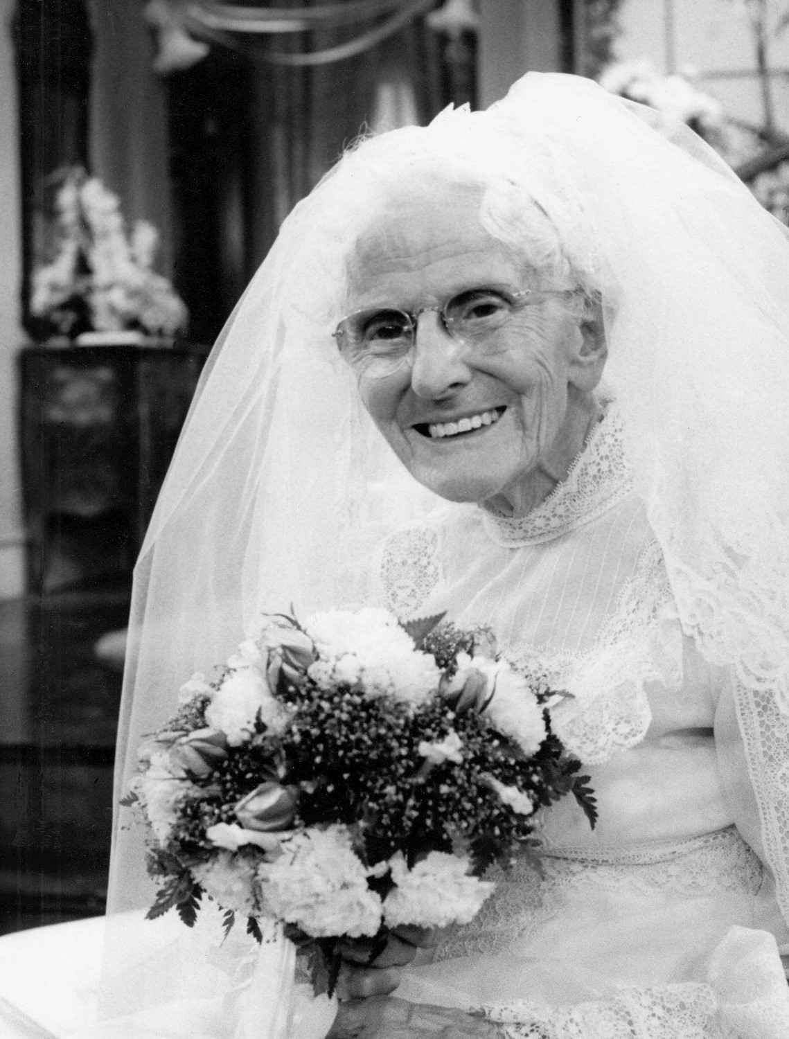 Photo of Judith Lowry as Mother Dexter from the television series Phyllis. Lowry played the mother of Lars Lindstrom's stepfather-Lars was Phyllis' (Cloris Leachman) husband. She's shown here marrying Arthur Lanson, played by Bert Mustin. Before this episode aired on television, Lowry died, and Mustin also died a short time after it aired. The two seniors were favorites among the viewers. With them both gone, the television show, which started out as a hit, could never really regain its initial popularity and the program was canceled.